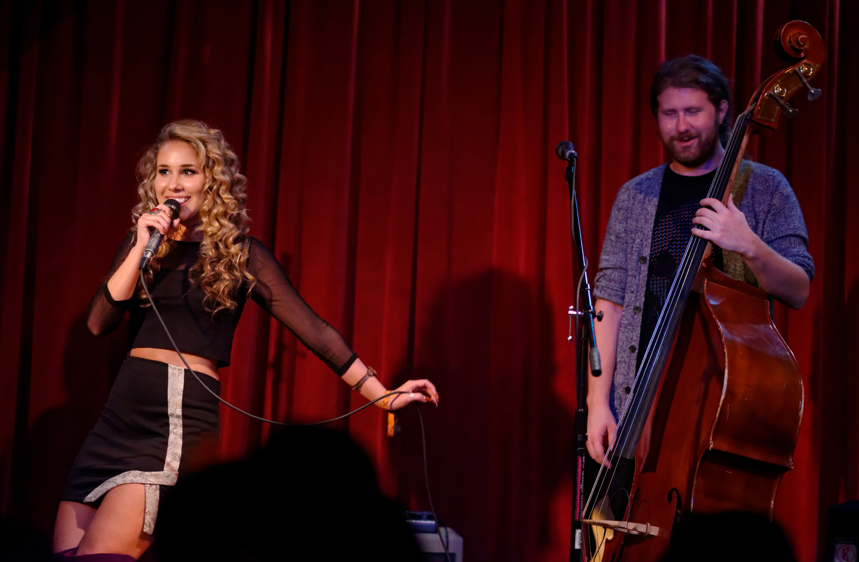 Haley Reinhart, Casey Abrams, Mark Ballas, and Dylan Chambers performing live at Room 5 Lounge (and then out on the sidewalk outside the venue) in Los Angeles California on Wednesday June 25th, 2014.